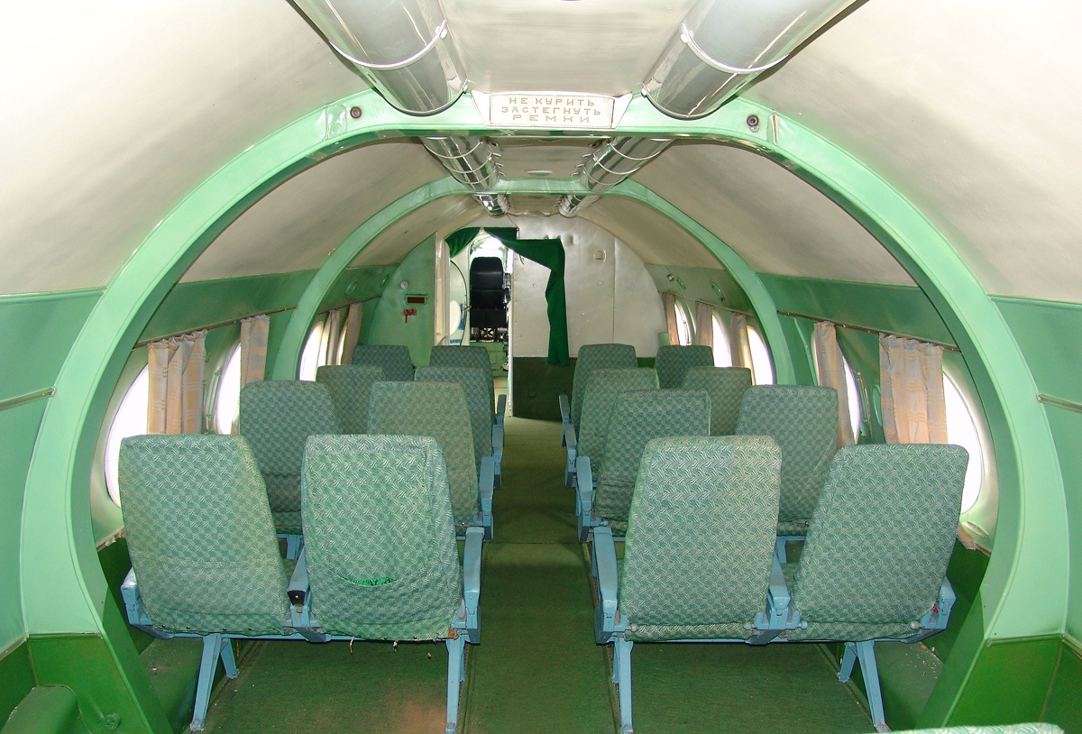 First shot of TU-124 cabin on !